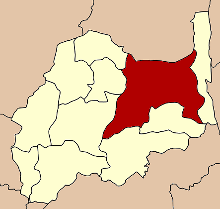 Map of Lopburi, highlighting Amphoe Chai Badan (Geocode 1604).